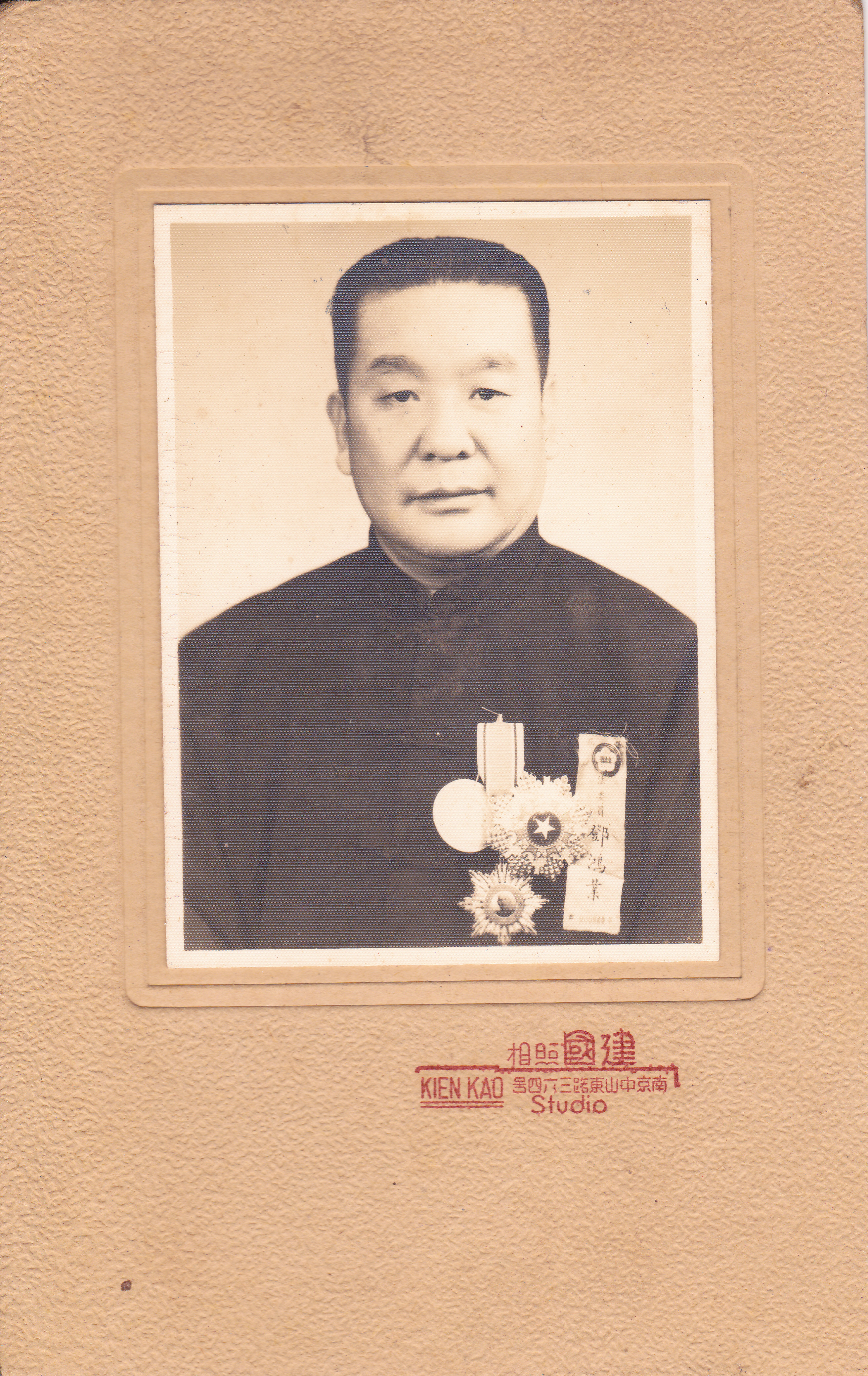 DENG HONG-YE Awarded Medal 1947 R.O.C.